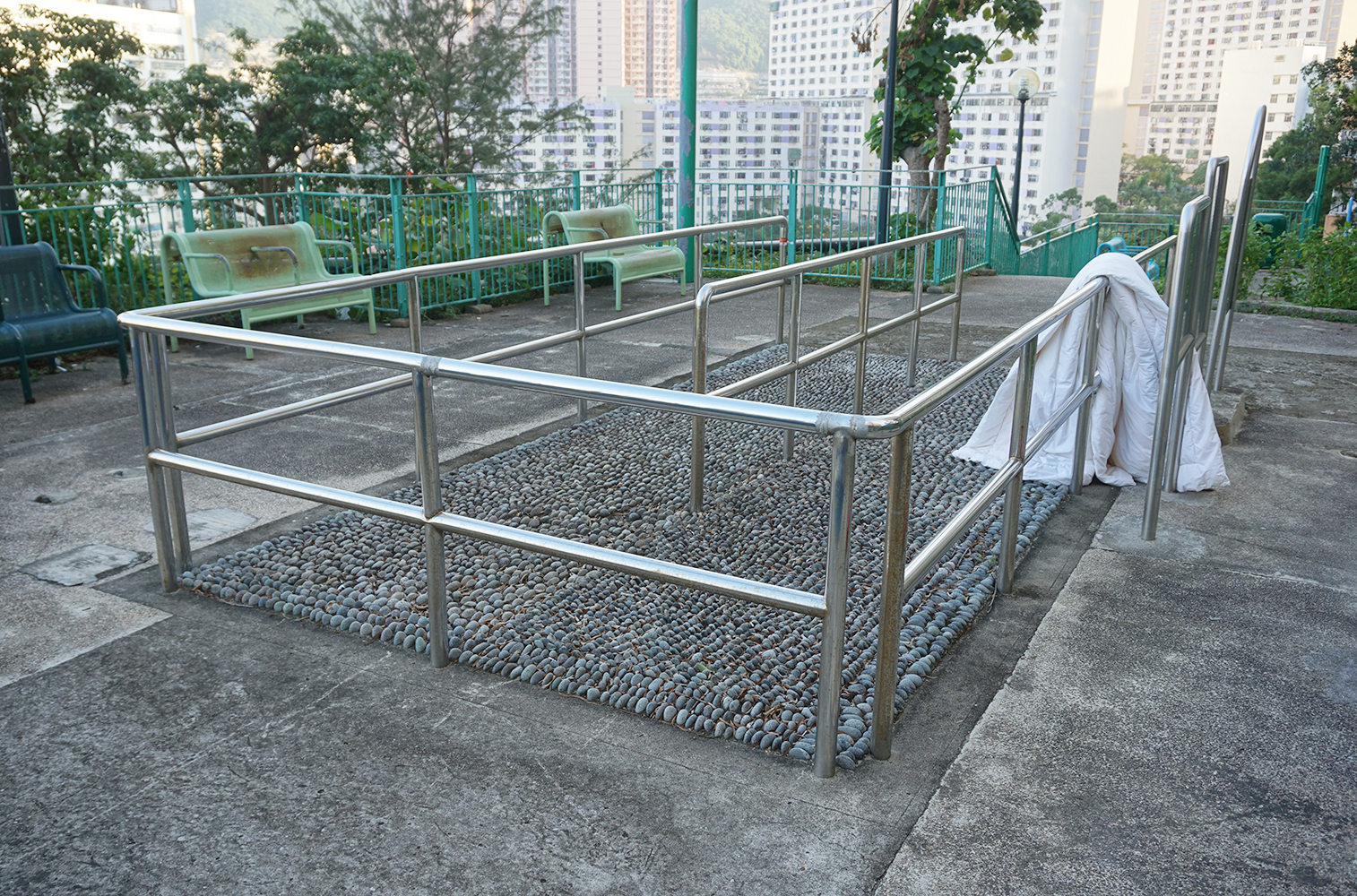 Hing Man Estate in Chai Wan, Hong Kong.